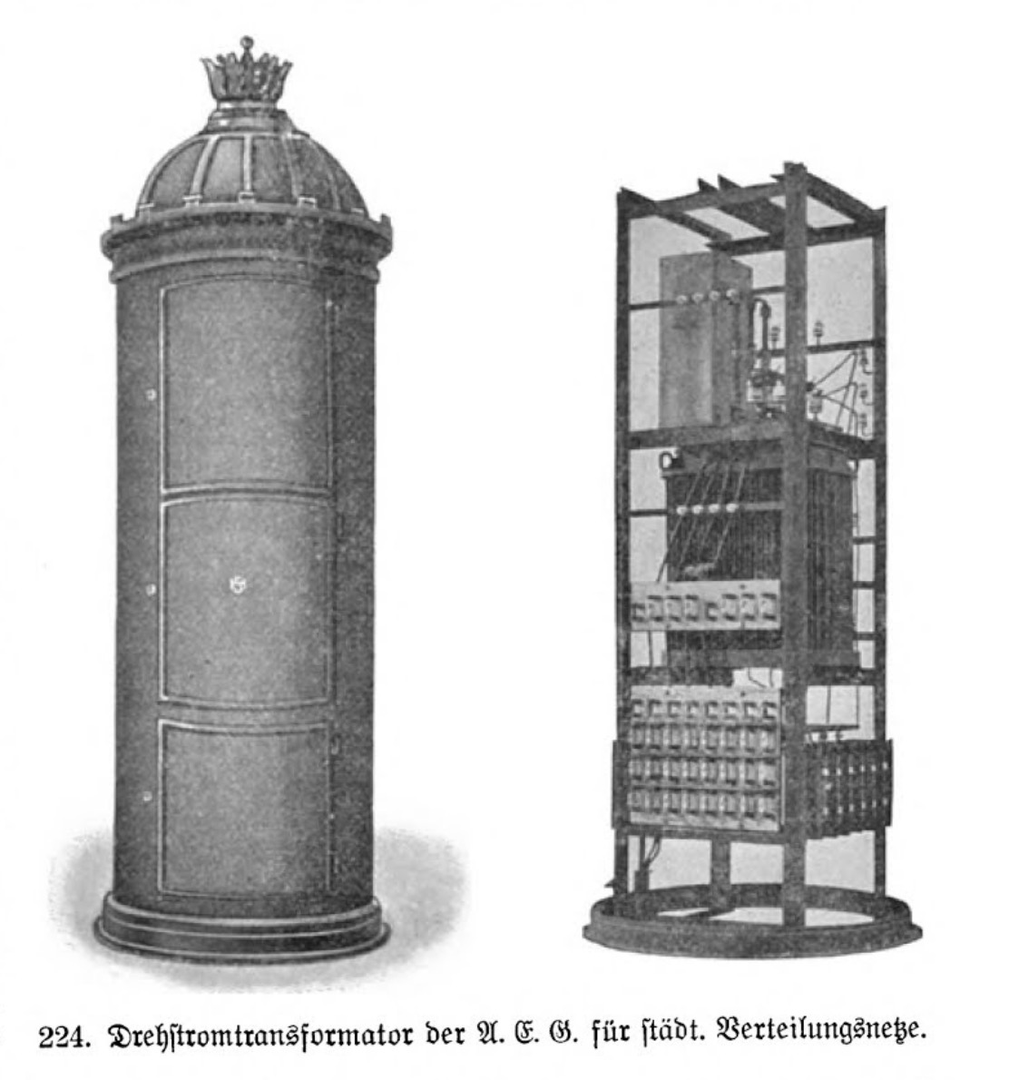 Drehstromtransformator der A.E.G. für Stadt. Verteilungsnetze